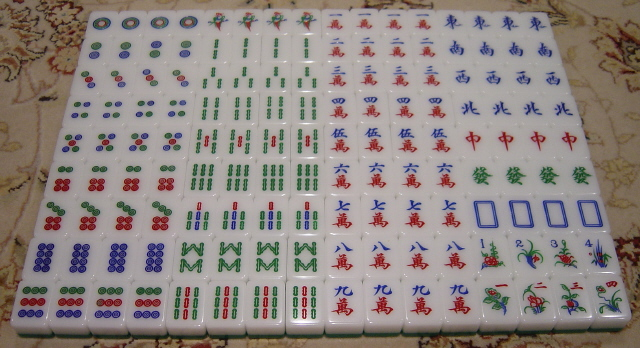 Mahjong tiles